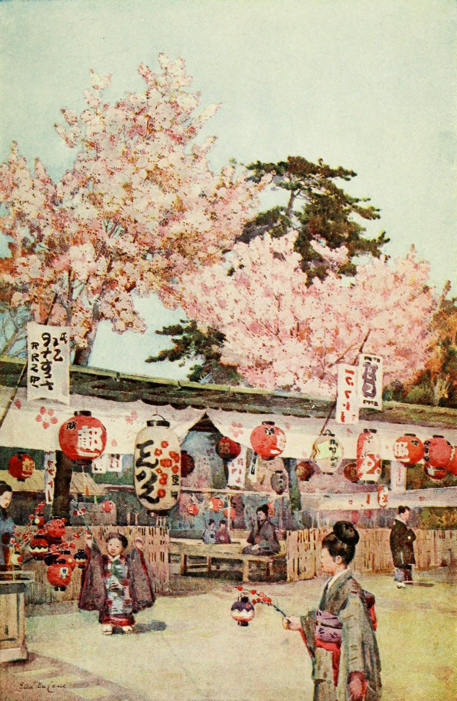 pg 41vof El Japón.